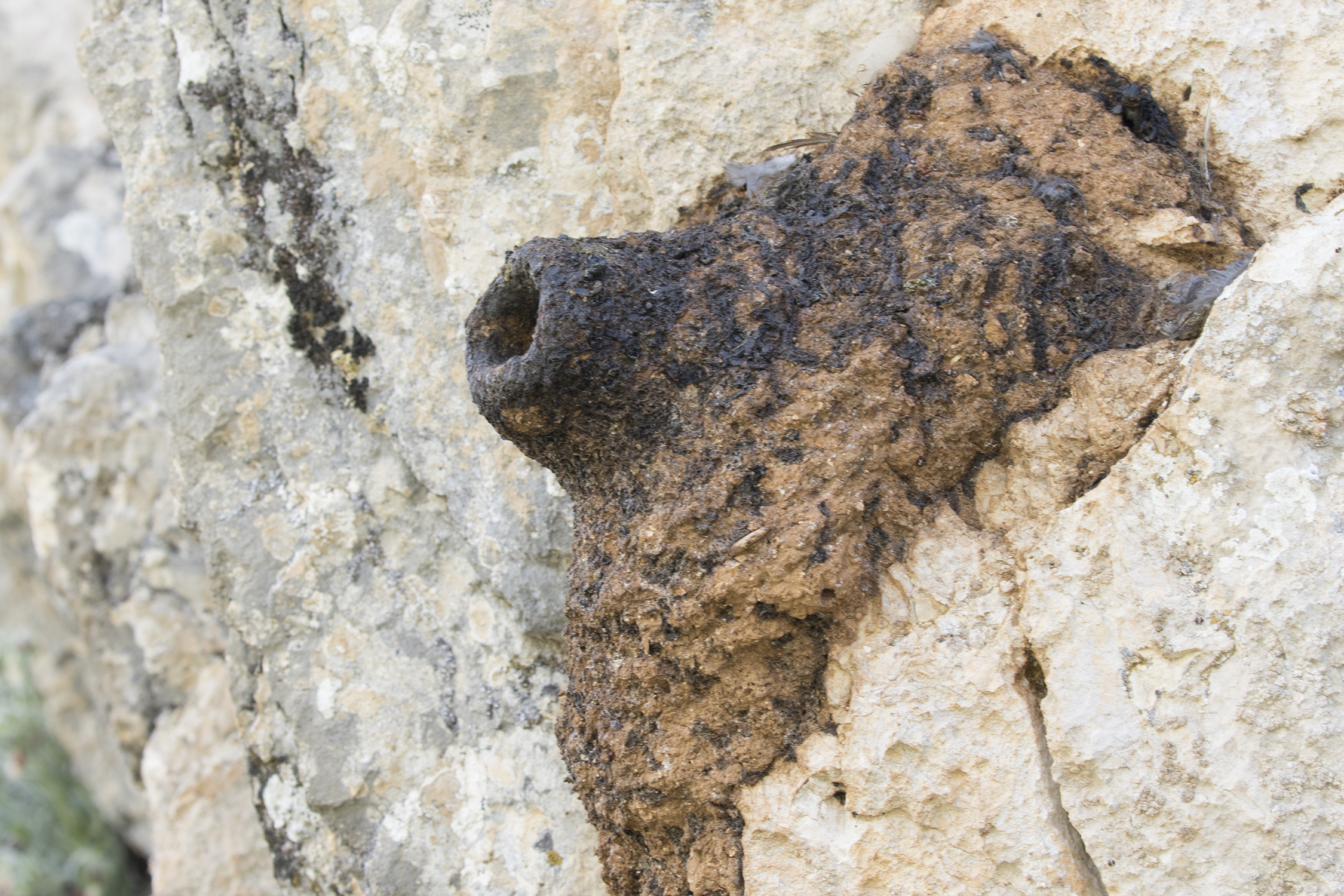 A nest of Western Rock Nuthatch (Sitta neumayer). Karasakal Mountain in Güzelim - Tufanbeyli, Adana - Turkey.